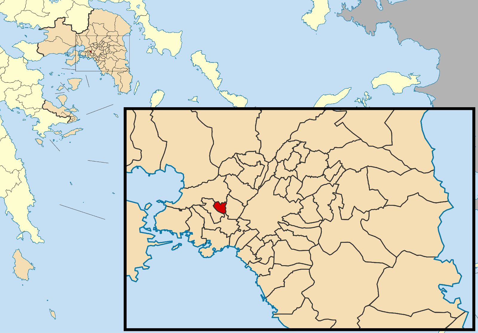 Locator map for Agia Varvara municipality in Greek region Attica (2011)